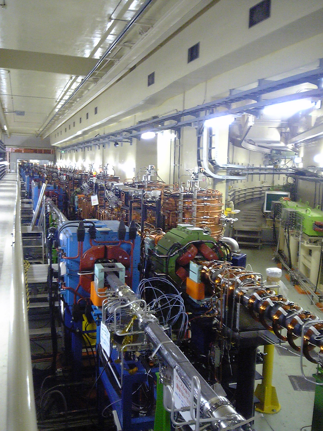 Inter-University Research Institute Corporation High Energy Accelerator Research Organization KEK